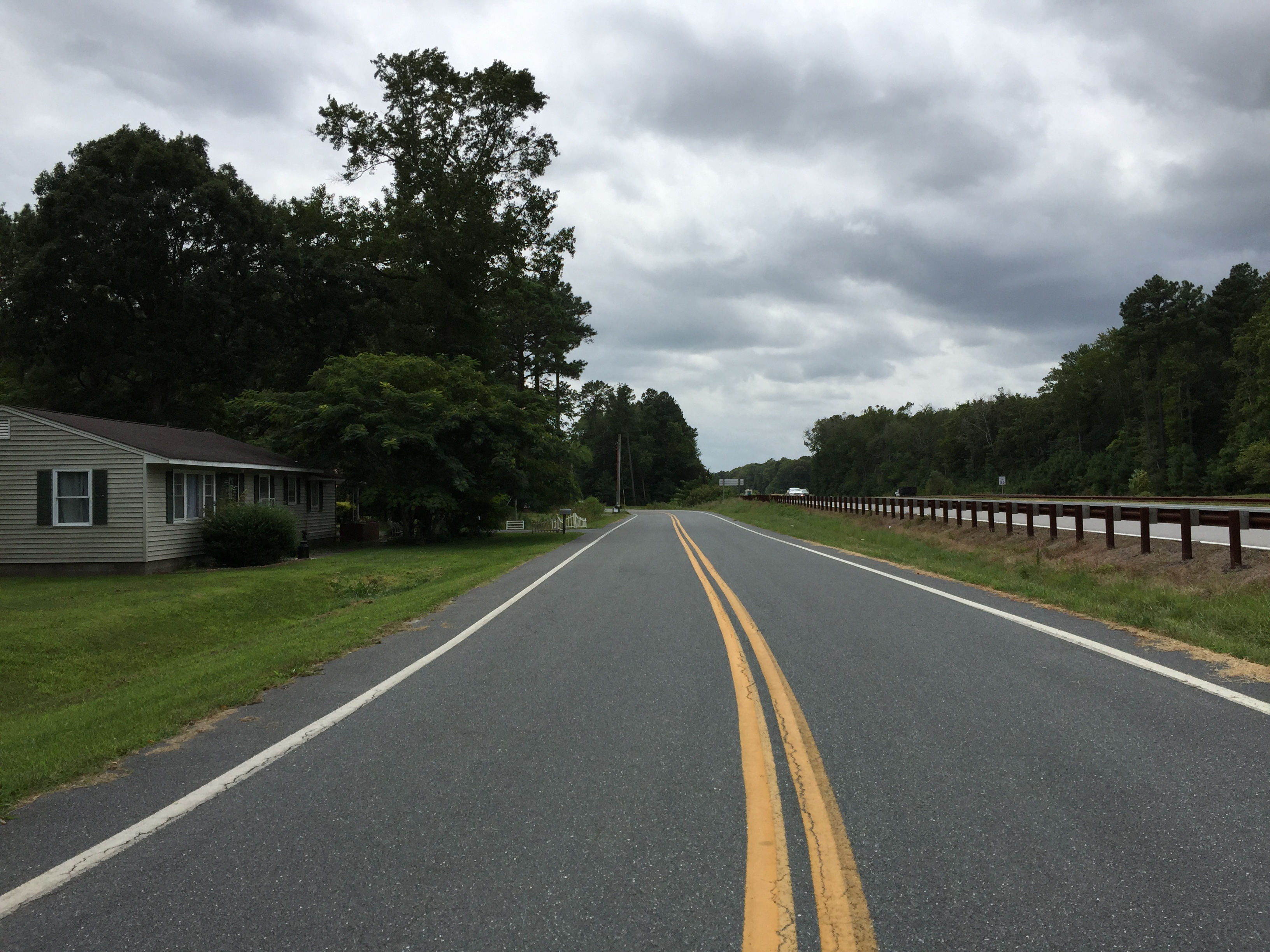 View south along Maryland State Route 921 (Access Road I) at East Shire Drive in Ironshire, Worcester County, Maryland